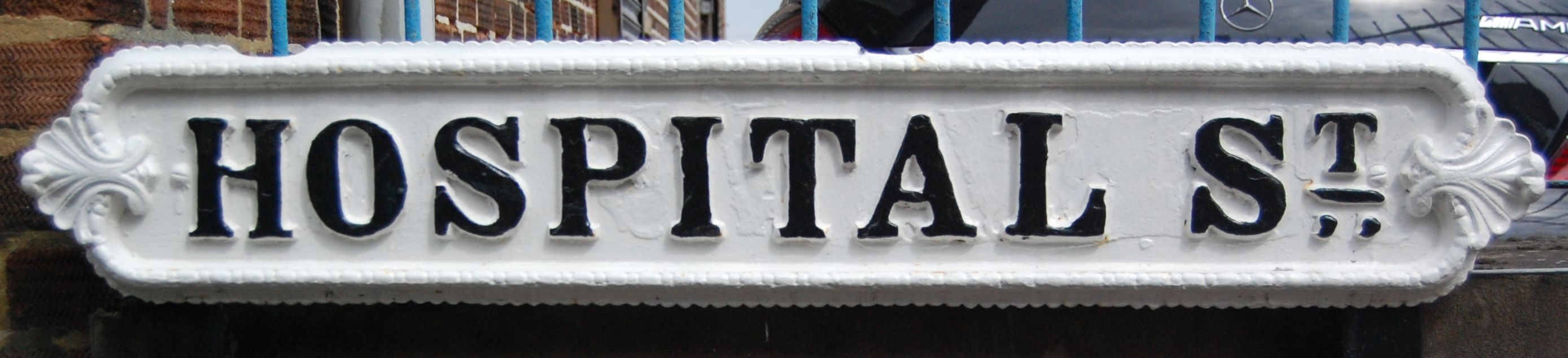 Victorian-era Hospital Street cast iron name plate, Birmingham, England. The street was named for the first Birmingham General Hospital which was nearby. Object location52° 29′ 16.99″ N, 1° 54′ 02.64″ W